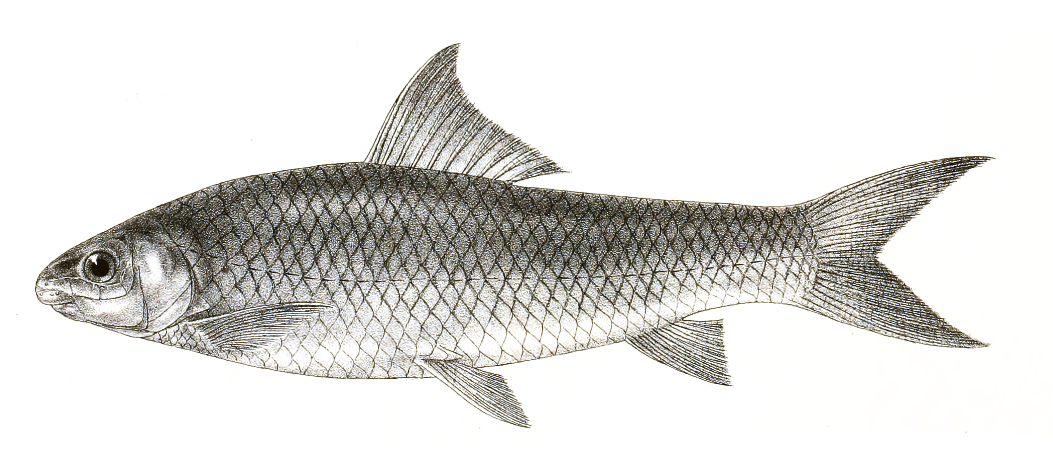 The species names / identity need verification - original names from plate are included here. The original plates showed the fishes facing right and have been flipped here. Labeo ariza